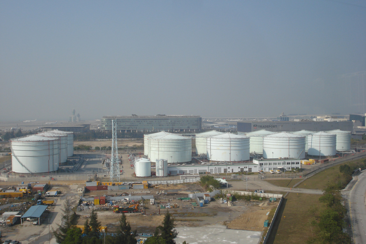 Aviation Fuel Tank Farm, Hong Kong International Airport